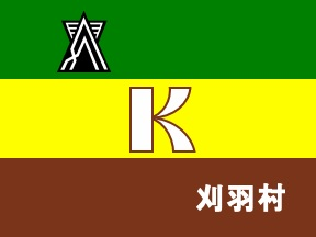 Flag of Kariwa Niigata